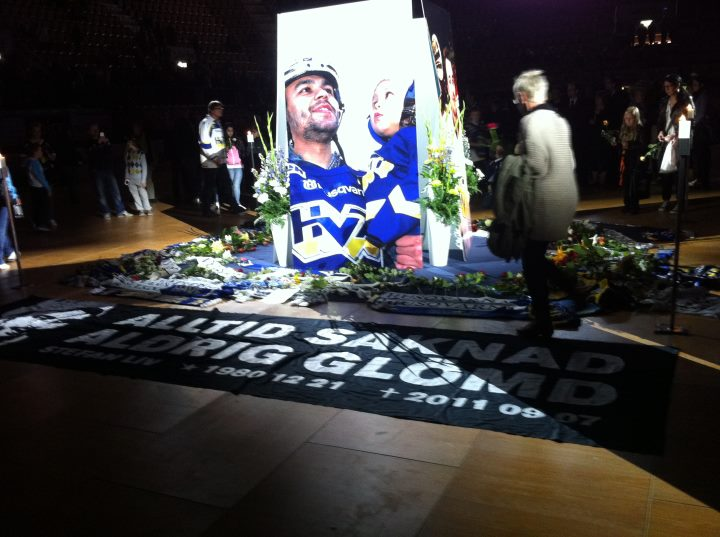 The cermony of Stefan Liv's death at Kinnarps Arena September 7, 2011.